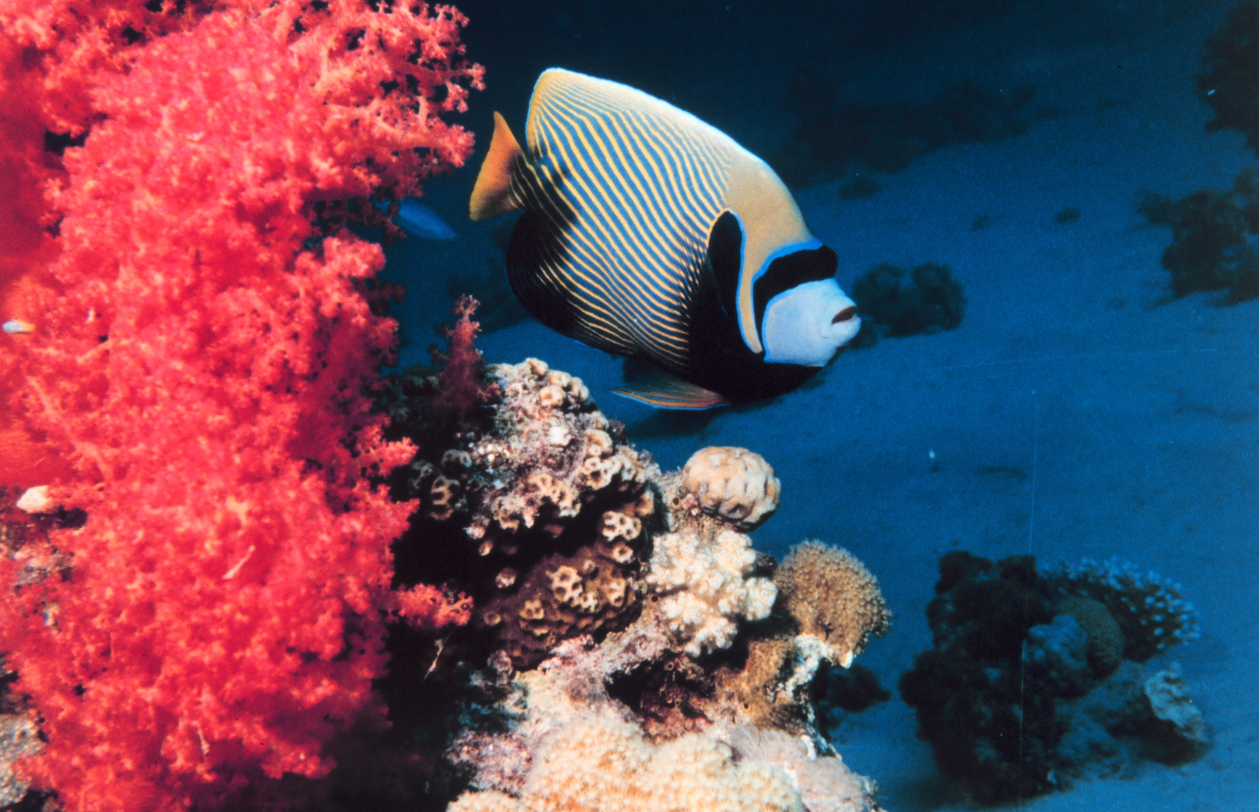 Pomacanthus imperator 2